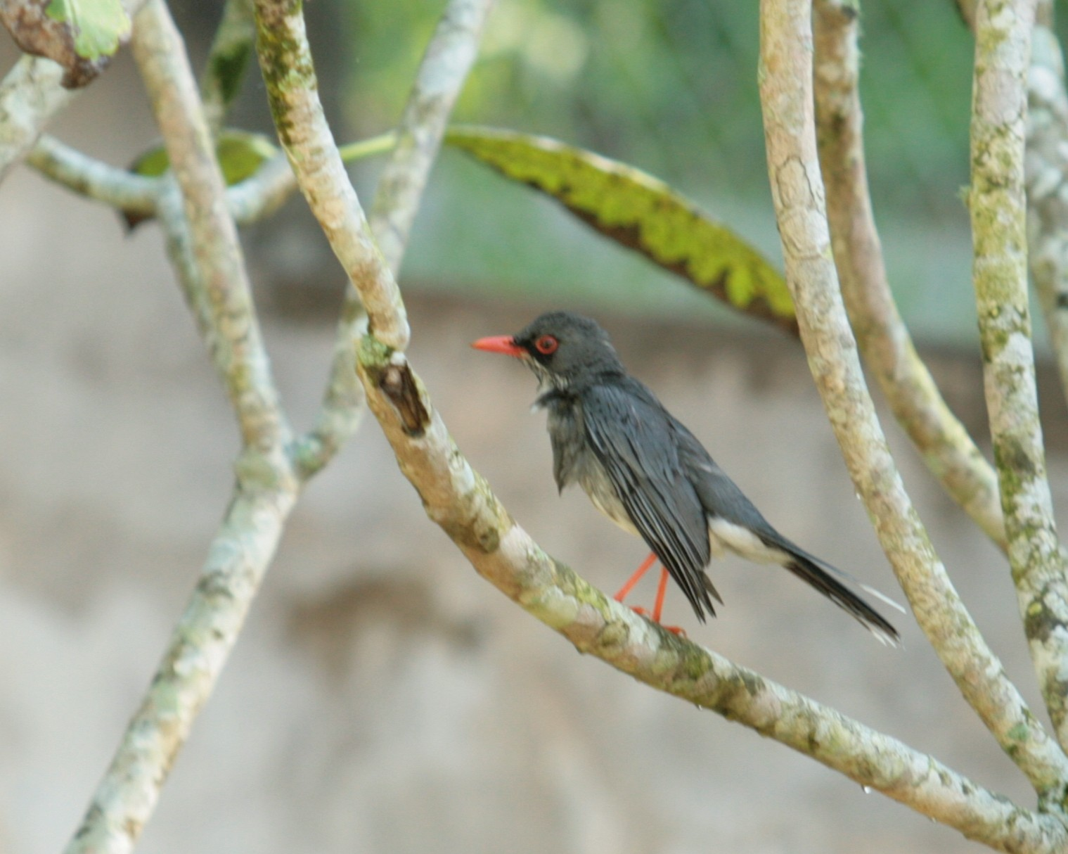 taken at the Mayaguez, Puerto Rico zoo in 2008 it is said to be a Red-legged Thrush (Turdus plumbeus) or in local terms a Zorzal de Patas Coloradas.